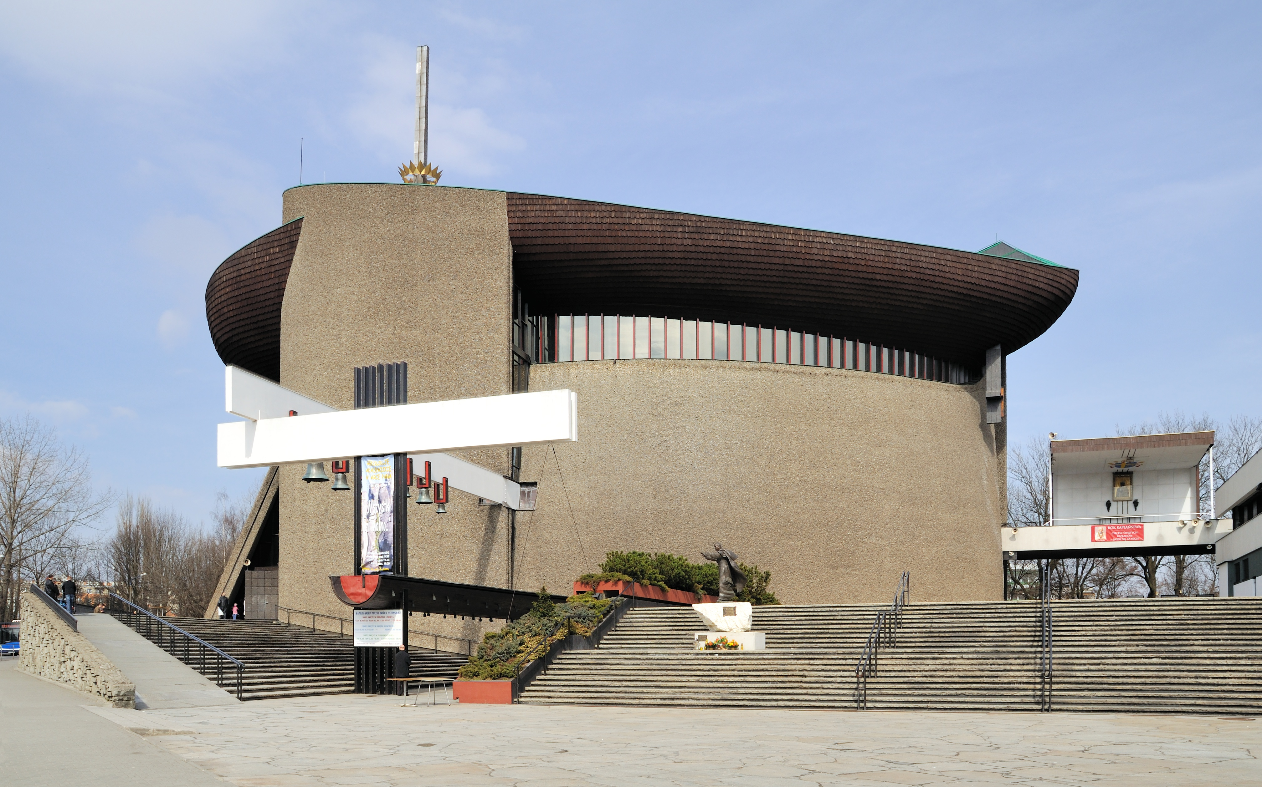 Kraków: The Lord's Ark church.